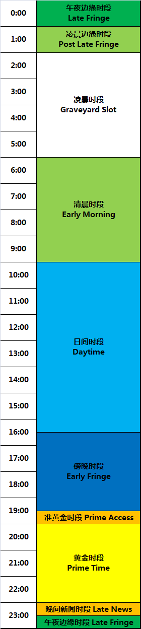 A diagram of the dayparts of television programming.